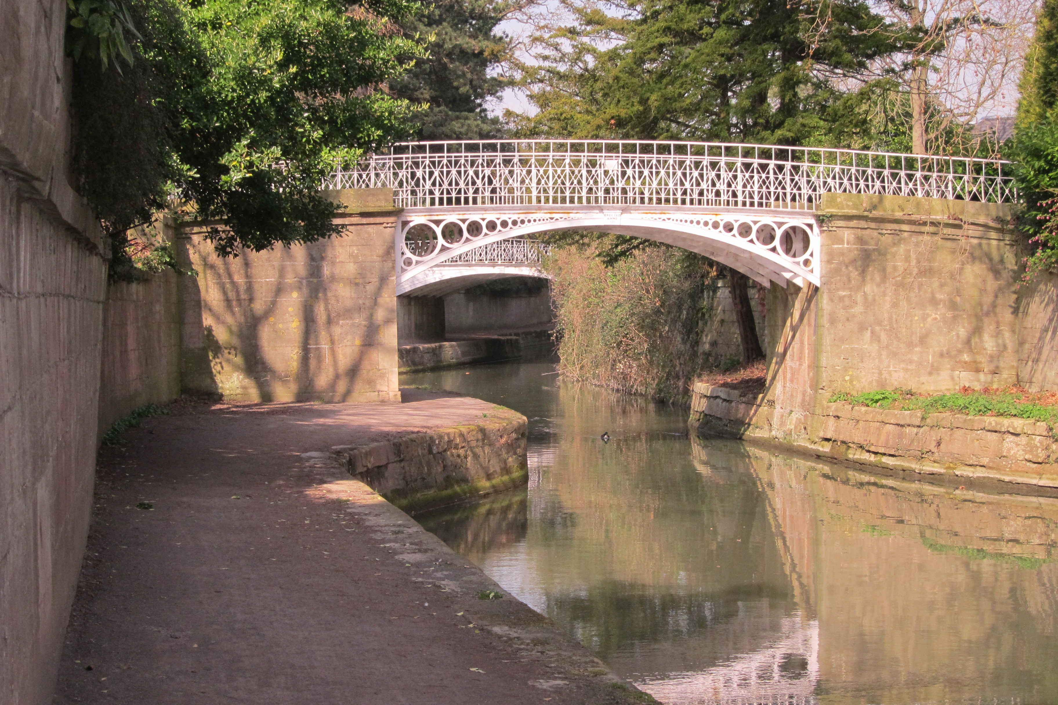 Iron footbridge over the Kennet and Avon canal, Sydney Gardens, Bath